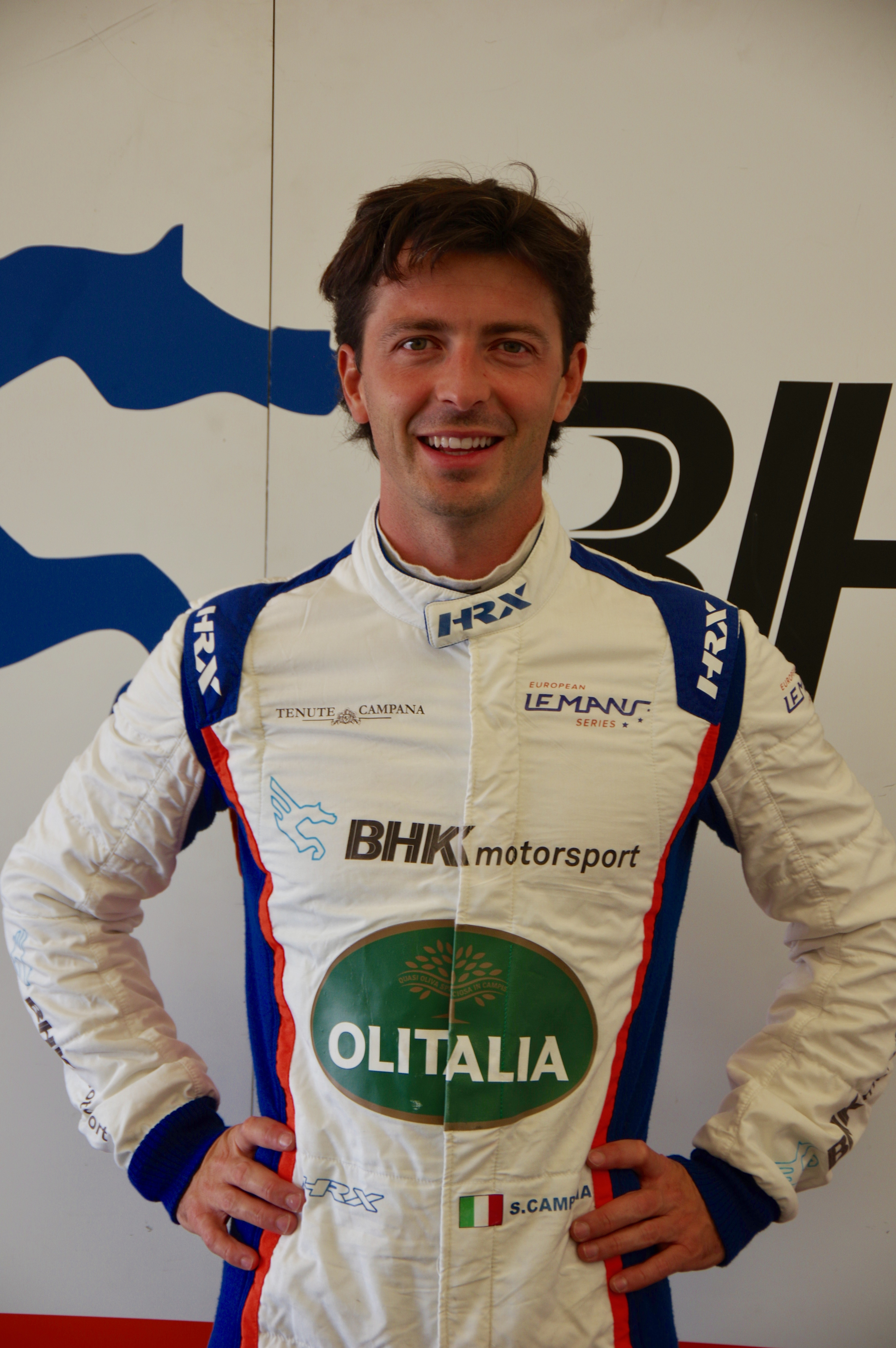 Sergio Campana Driver of BHK Motorsport's Oreca 07 Gibson at the 4 Hours of Silverstone, European Le Mans Series 2019.